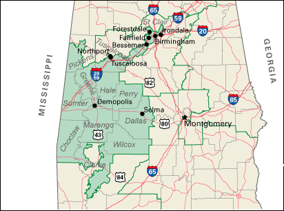 1-Alabama's 7th Congressional District